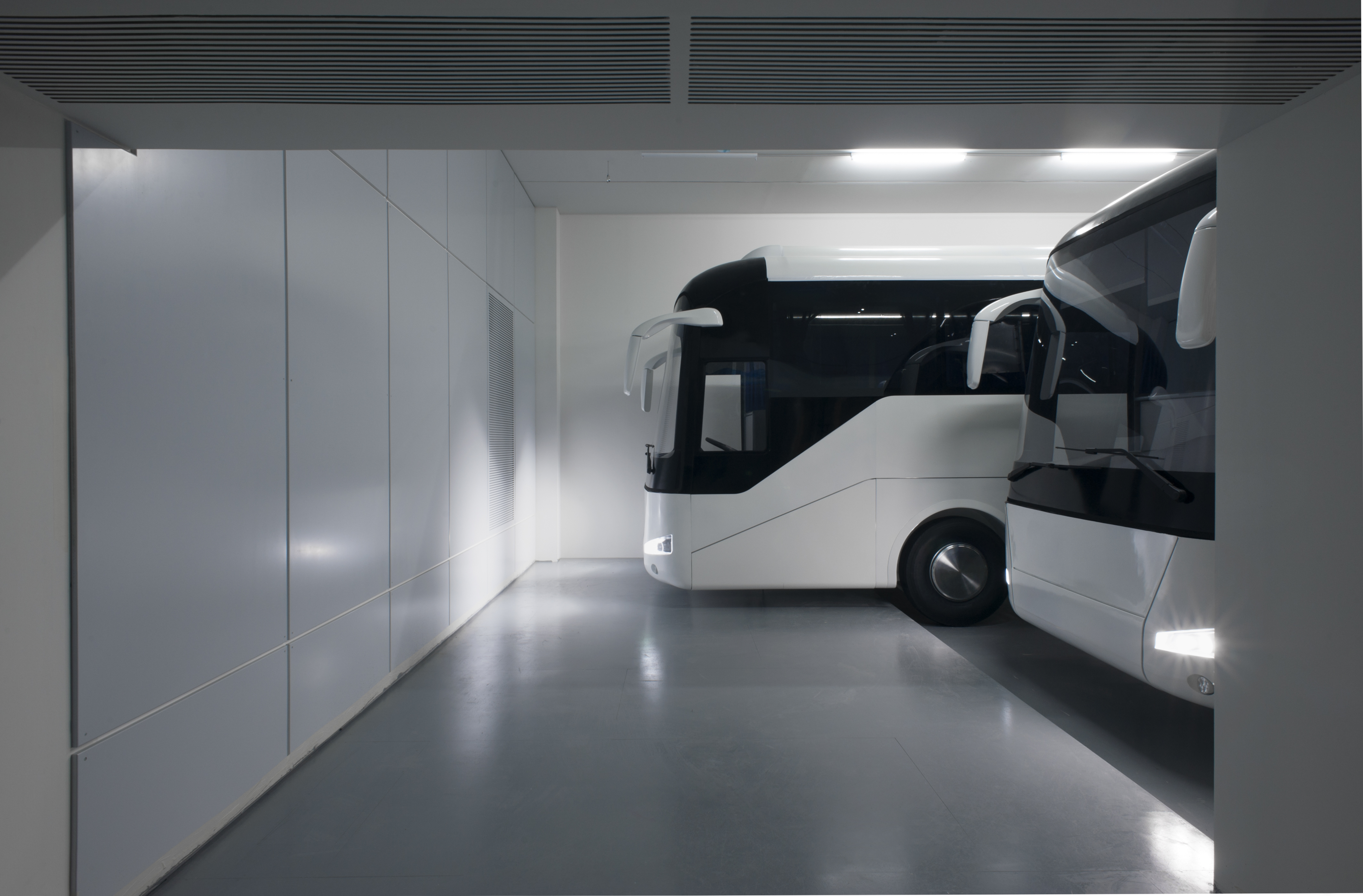 Gil Marco Shani Busses Installation, 2018, Israel Museum, View 2